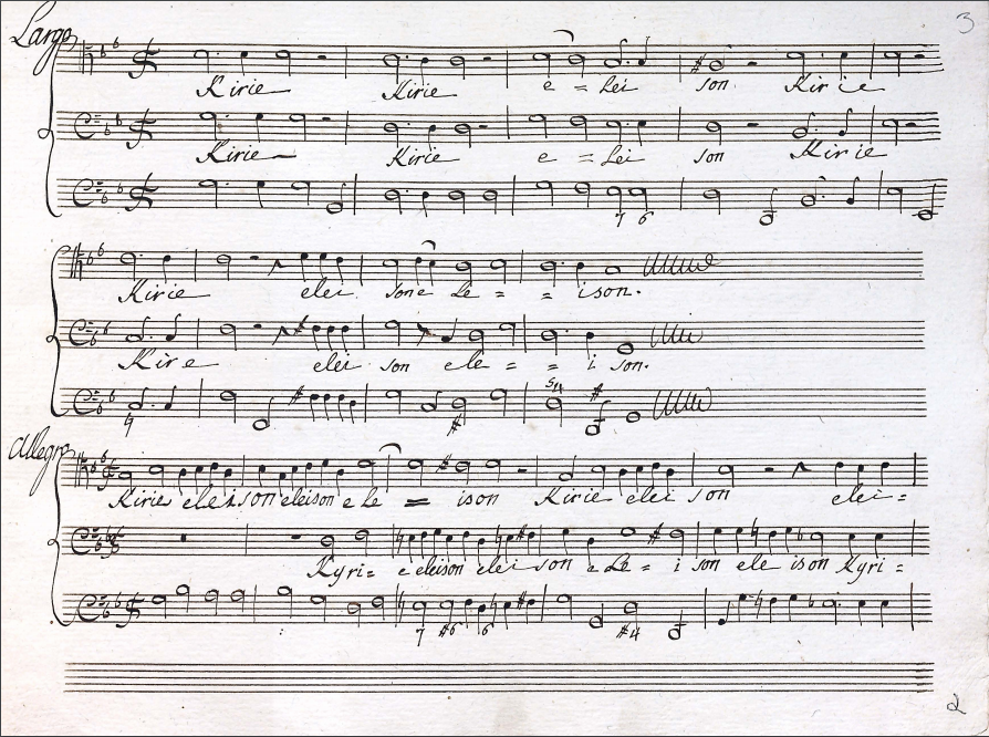 First page of Mass for 2 voices by Giovanni Carlo Maria Clari (1677-1754), an undated manuscript keep in Fondo Ricasoli of University of Louisville, Kentucky